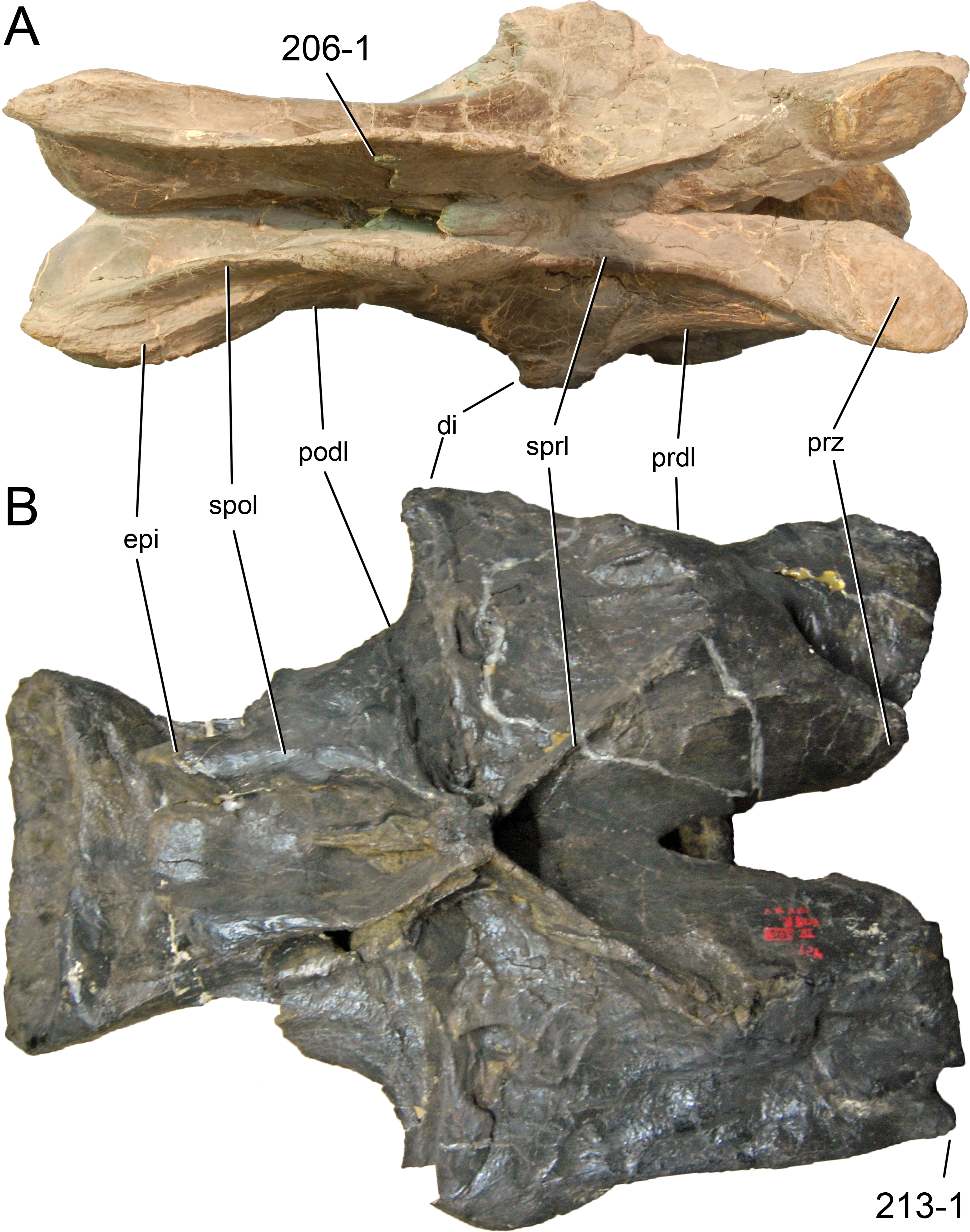 Diplodocine posterior cervical vertebrae. Posterior cervical vertebrae of Kaatedocus siberi SMA 0004 (A), and Barosaurus lentus YPM 429 (B) in dorsal view. Note the dorsoventral ridge on the medial side of the metapophysis (A; C206-1) and the anterior projection lateral to the prezygapophyseal facet (B; C213-1). Abb.: di, diapophysis; epi, epipophysis; podl, postzygodiapophyseal lamina; prdl, prezygodiapophyseal lamina; prz, prezygapophysis; spol, spinopostzygapophyseal lamina; sprl, spinoprezygapophyseal lamina. Scaled to the same total length.